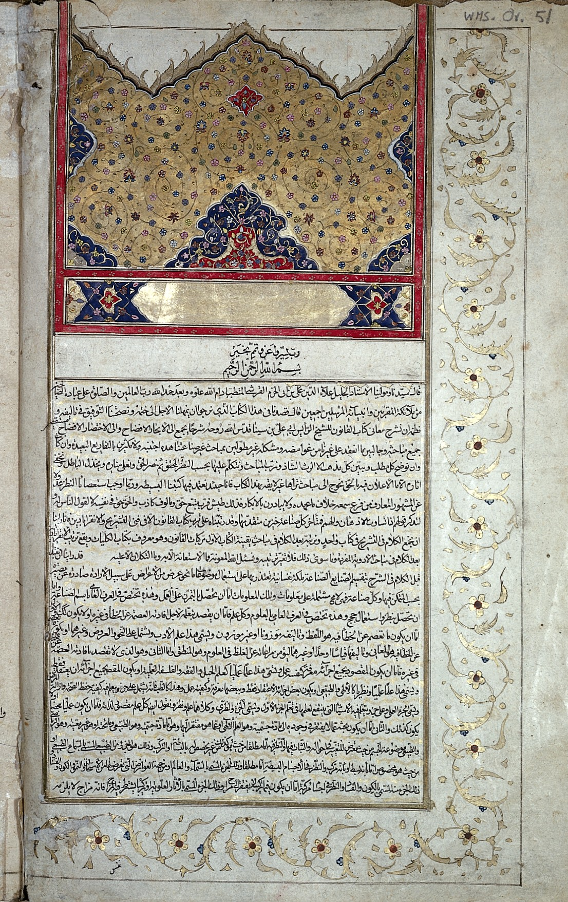 Ibn an-Nafis, Commentary on Avicenna's Canon. Asian Collection Keywords: manuscripts: wellcome ms or. 5; oriental manuscripts; wellcome or. 51